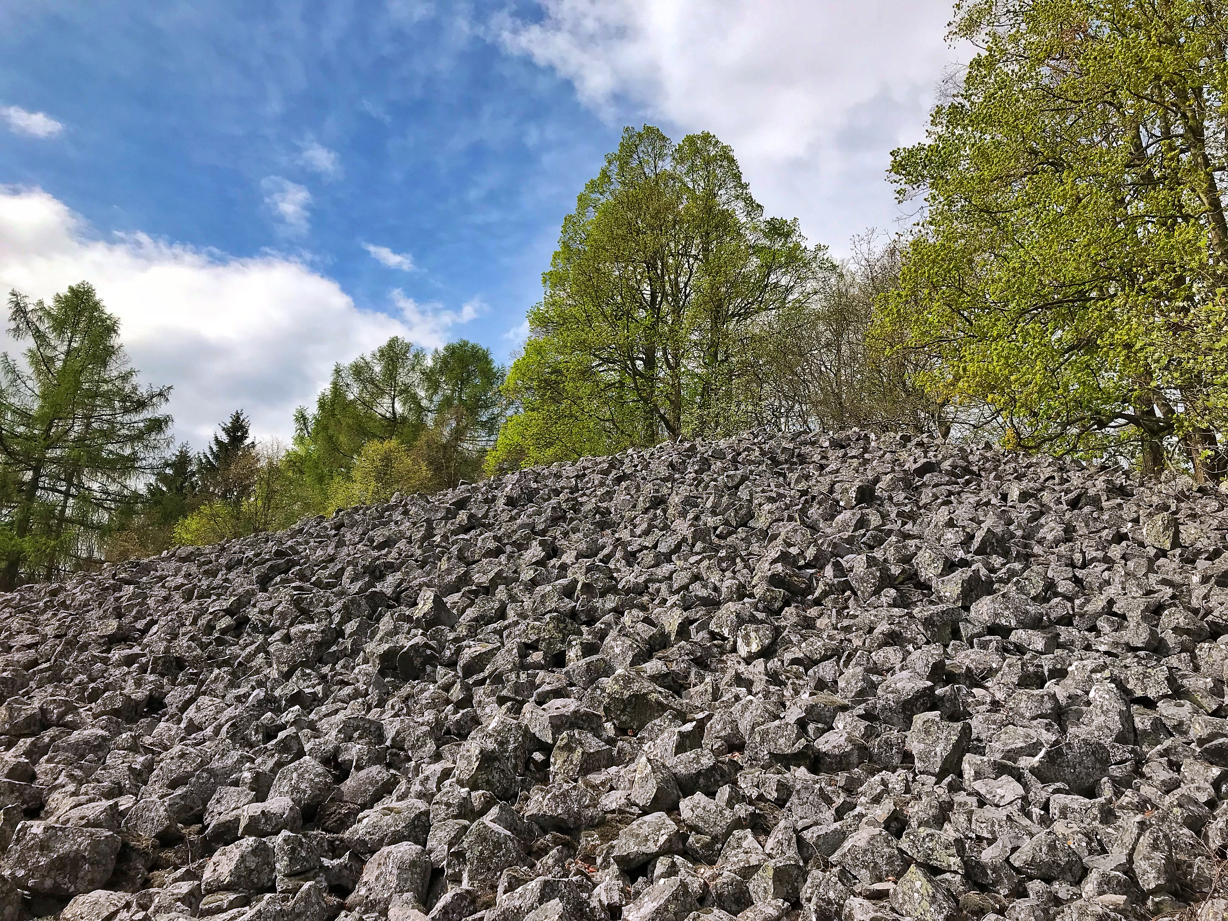 Stone field at the eastern slope of Ostrý (719 m) in the Central Bohemian Uplands